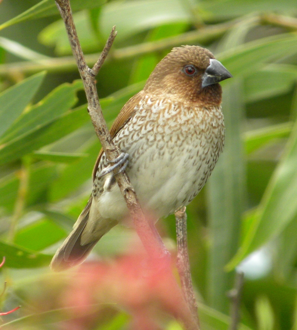 Scaly-breasted Munia or Nutmeg Mannikin found in Central Queensland, Australia. (Lonchura punctulata)